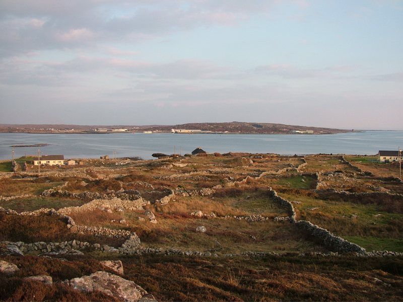 A view of Ros a' Mhíl from close to An Sruthán in An Cheathrú Rua.